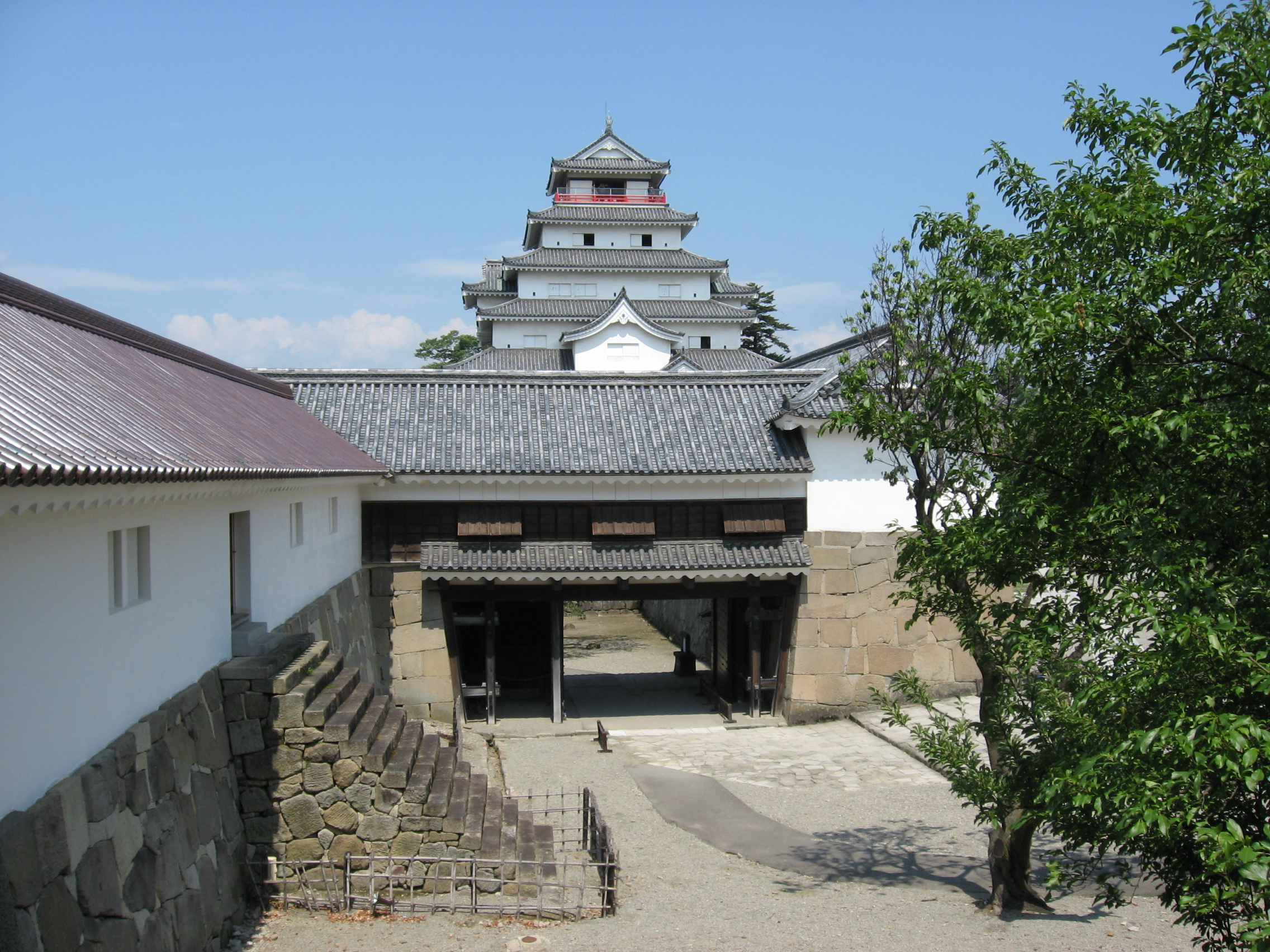 Aizuwakamatsu Castle